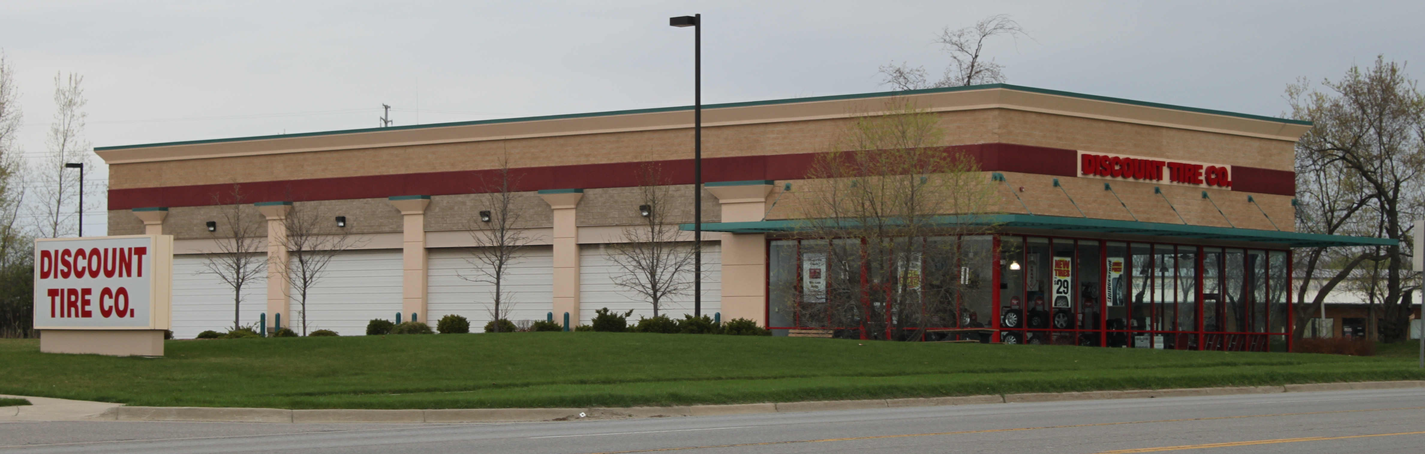 Discount Tire store, Ypsilanti, MI